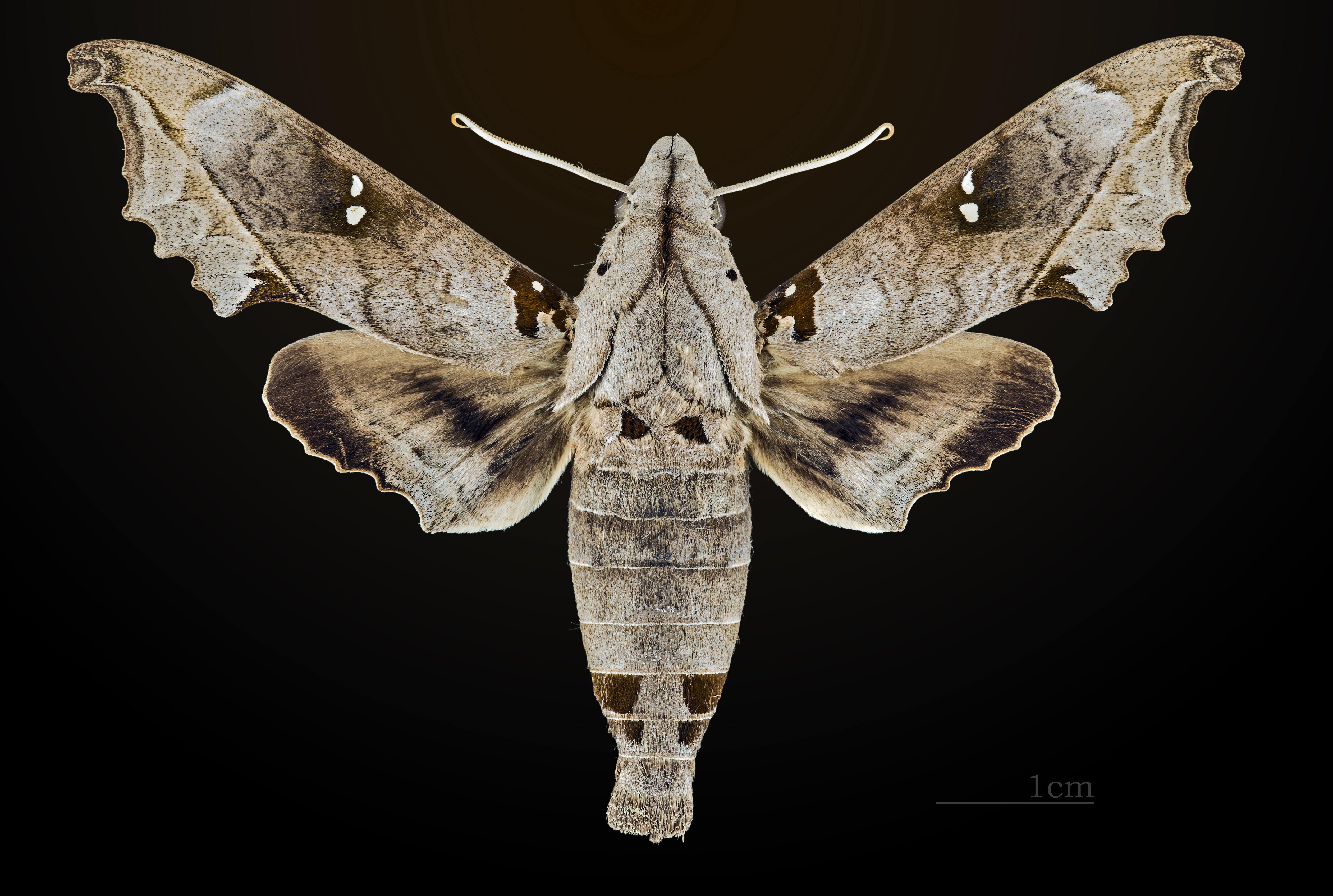 Madoryx oiclus - Dorsal side Collection of the Mathematician Laurent Schwartz